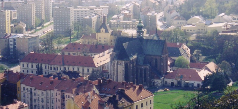 Augustinian Monastery and Basilica of the Assumption of Our Lady, Brno, Czech Republic. Photograph taken by Gareth Simkins - also known as User:Parmesan in April 2005, scanned and uploaded in November 2005.